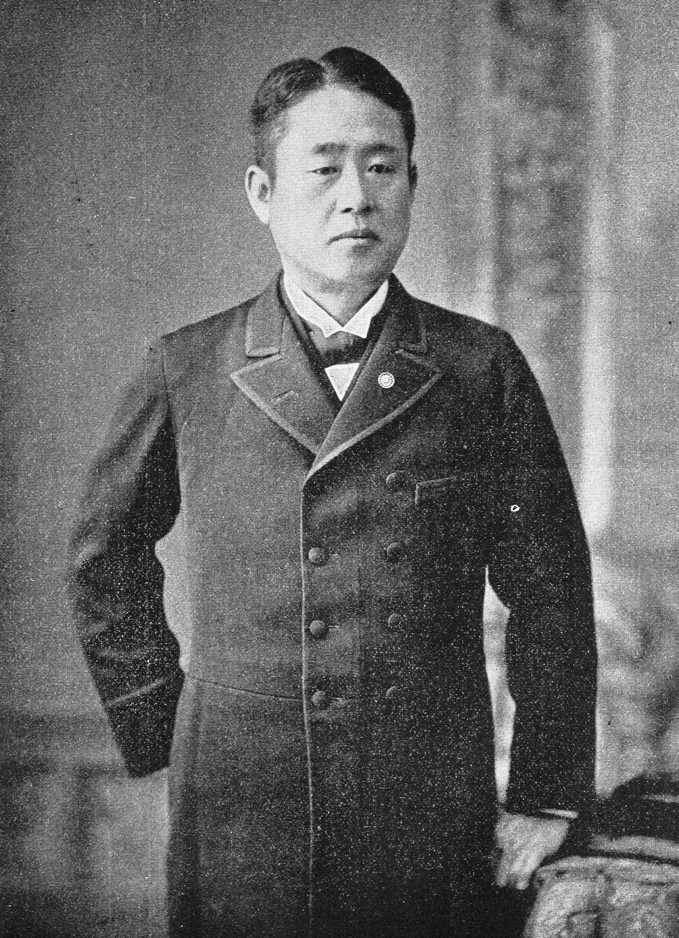 Kataoka Kenkichi, President of the House of Representatives